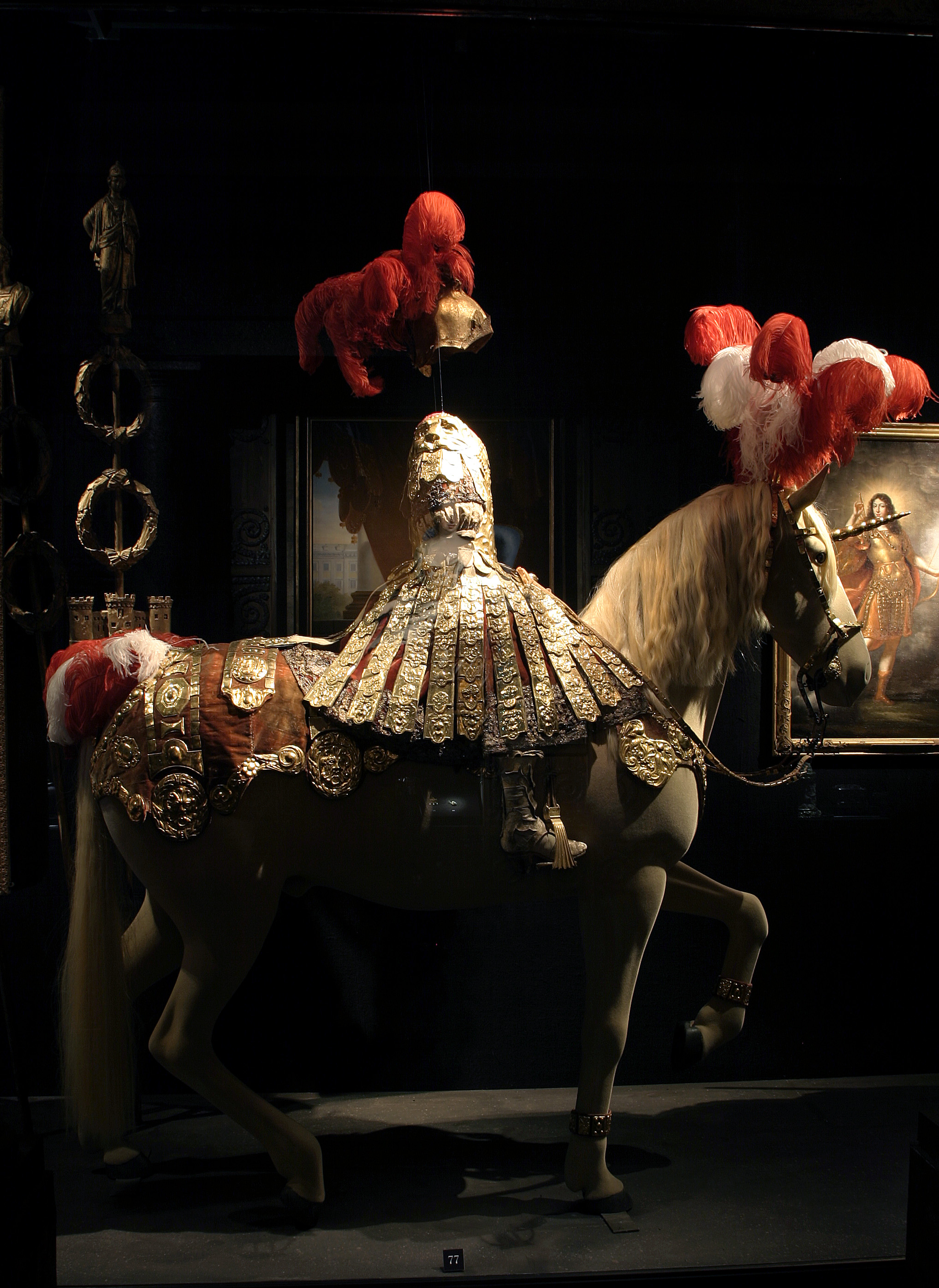 Note: For documentary purposes the original description has been retained. Factual corrections and alternative descriptions are encouraged separately from the original description.Dokumentation, utställning, Cristina di Svezia, år 2004 Dokumentation, utställning, Cristina di Svezia, år 2004